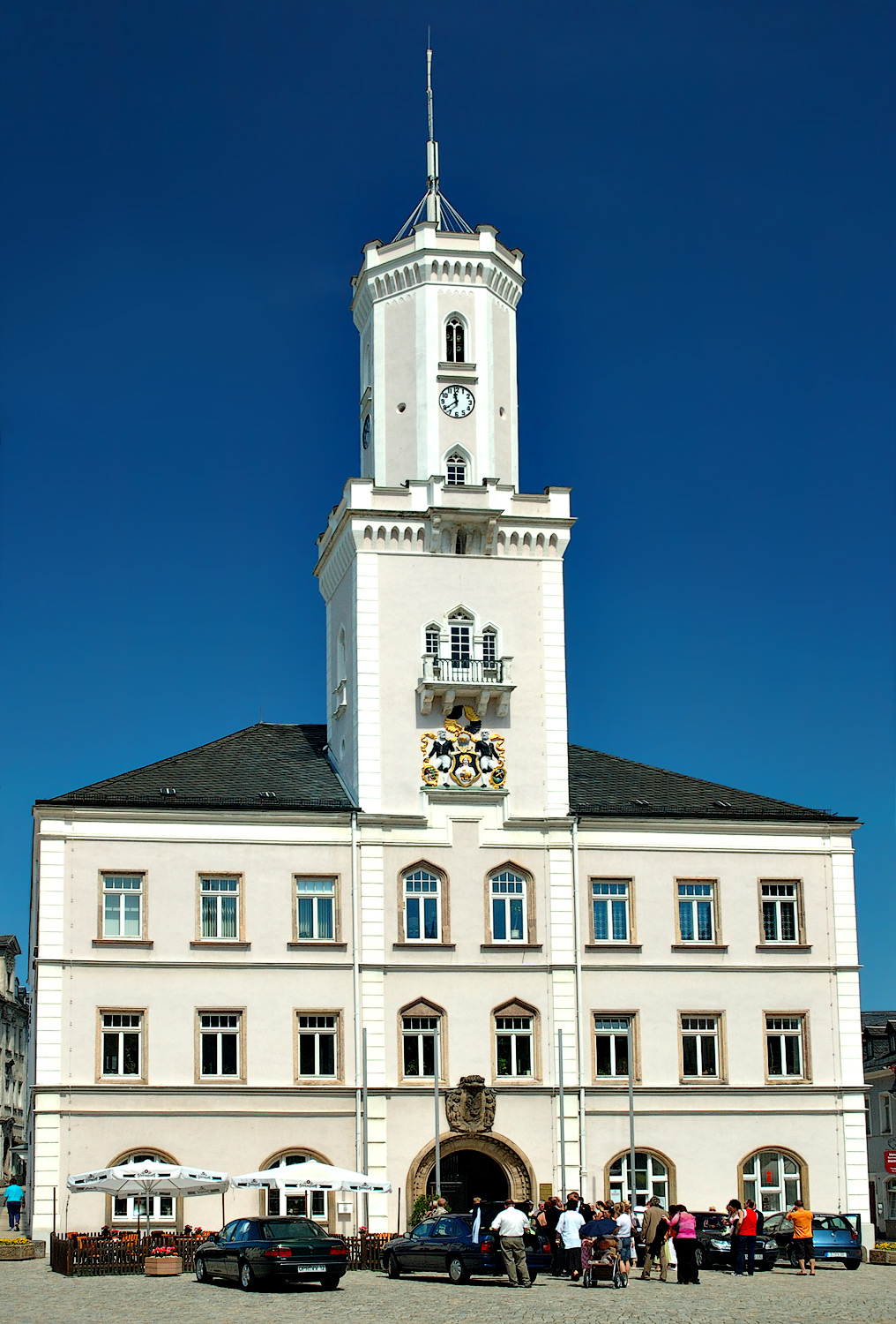 This image shows the townhall in Schneeberg (Saxony, Germany).